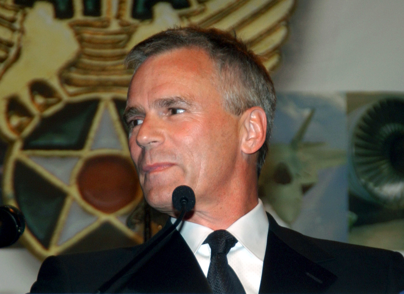 Actor and executive producer Richard Dean Anderson of "Stargate SG-1" was recognized by Air Force Chief of Staff Gen. John P. Jumper recently for his role in the television series and for the show's continuous positive depiction of the service. General Jumper made Mr. Anderson an honorary Air Force brigadier general. Mr. Anderson portrays Brig. Gen. Jack O'Neill, commanding officer of the SG-1 team of explorers.